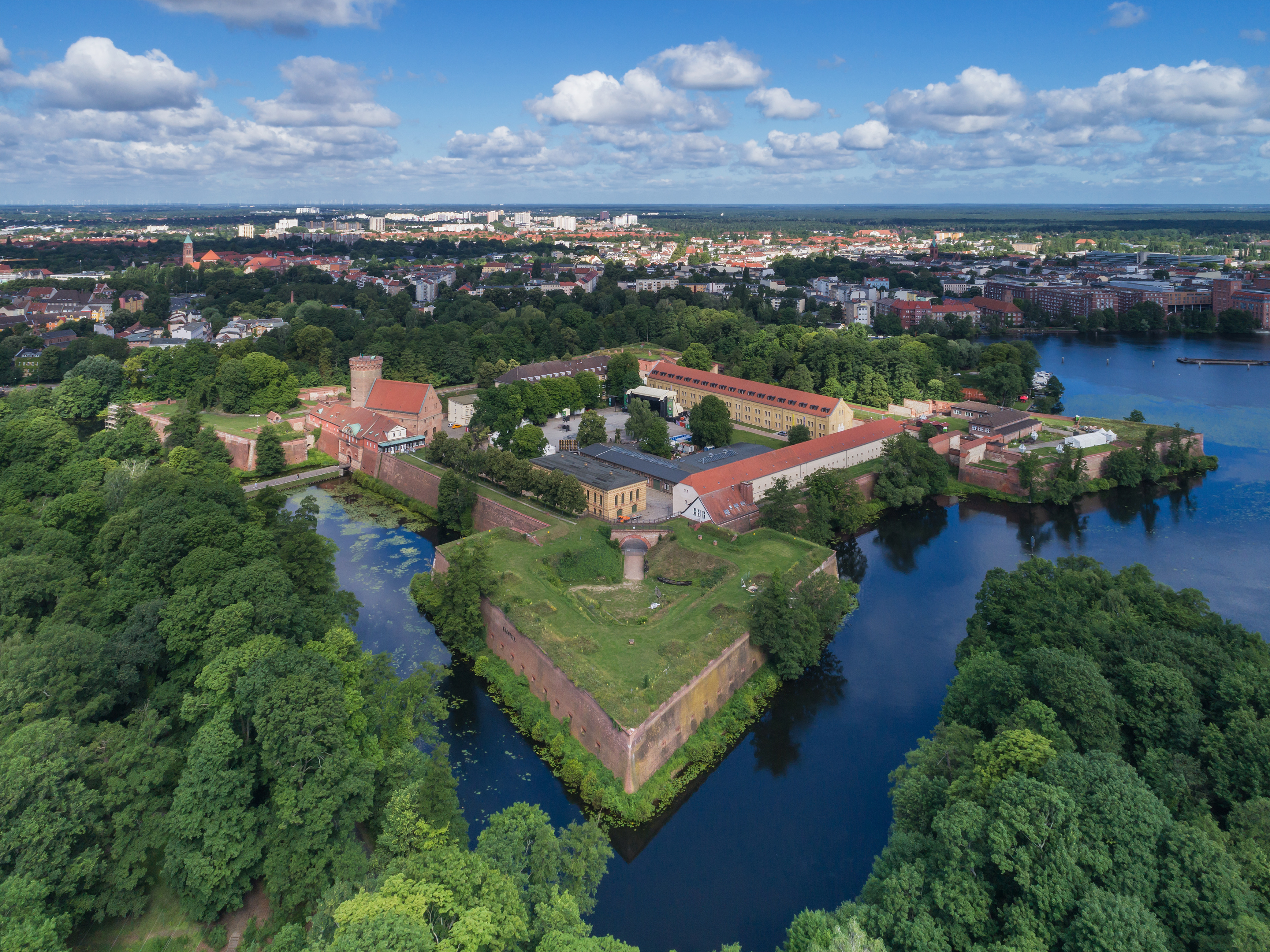 Spandau Citadel (aerial photo) in Berlin (Germany)